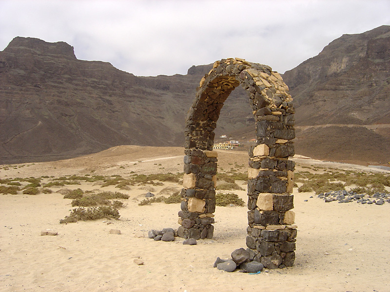 Norte Baía beach, São Vicente Island, Cape Verde. 2006